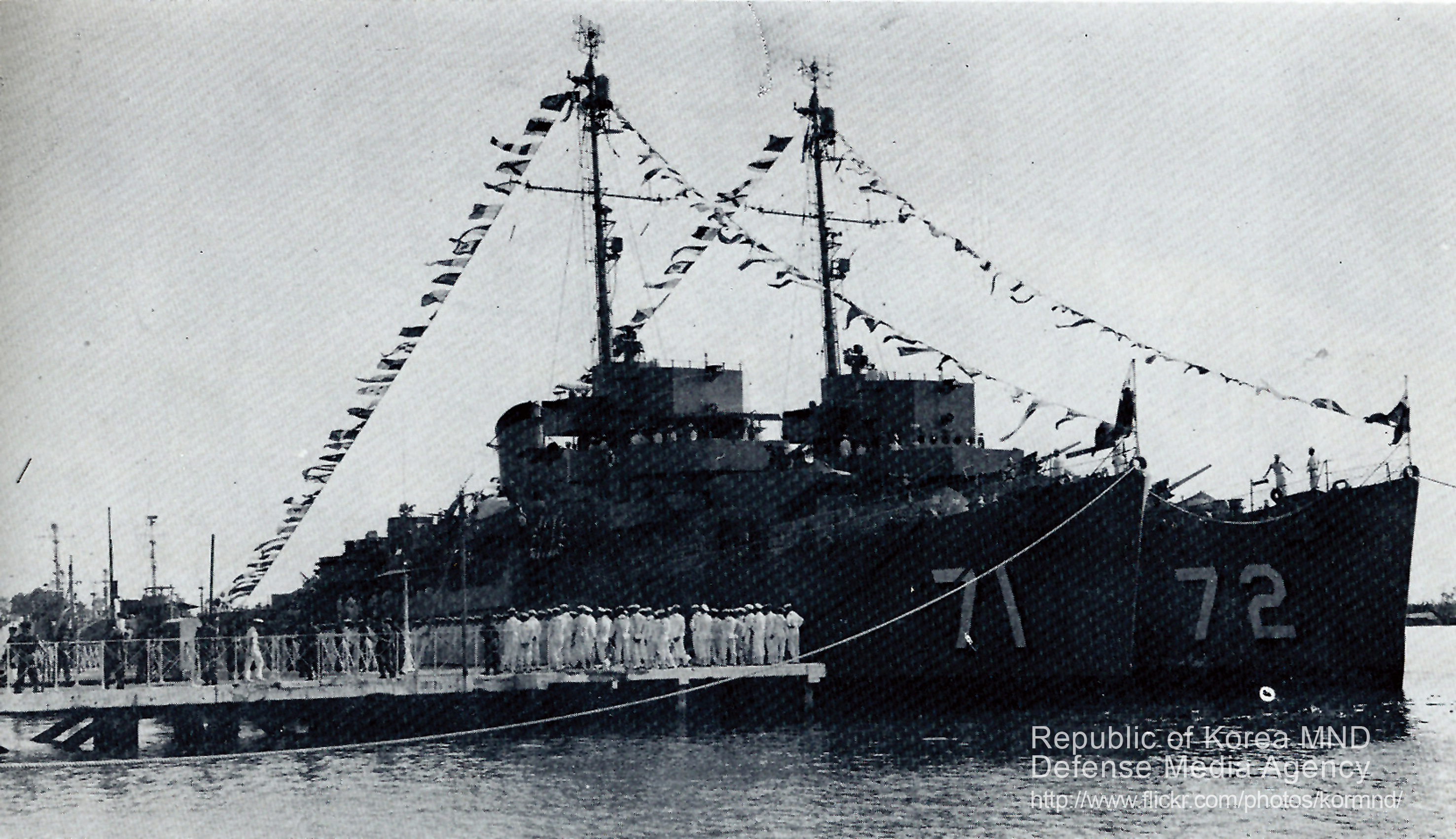 1956년 미국 보스턴에서 인수한 호위 구축함 Another Destroyer Escort ship transferred to the Korean Navy at Boston in 1956